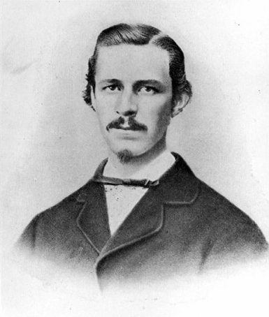 Lt. Beckett K. Howell of the CSMC